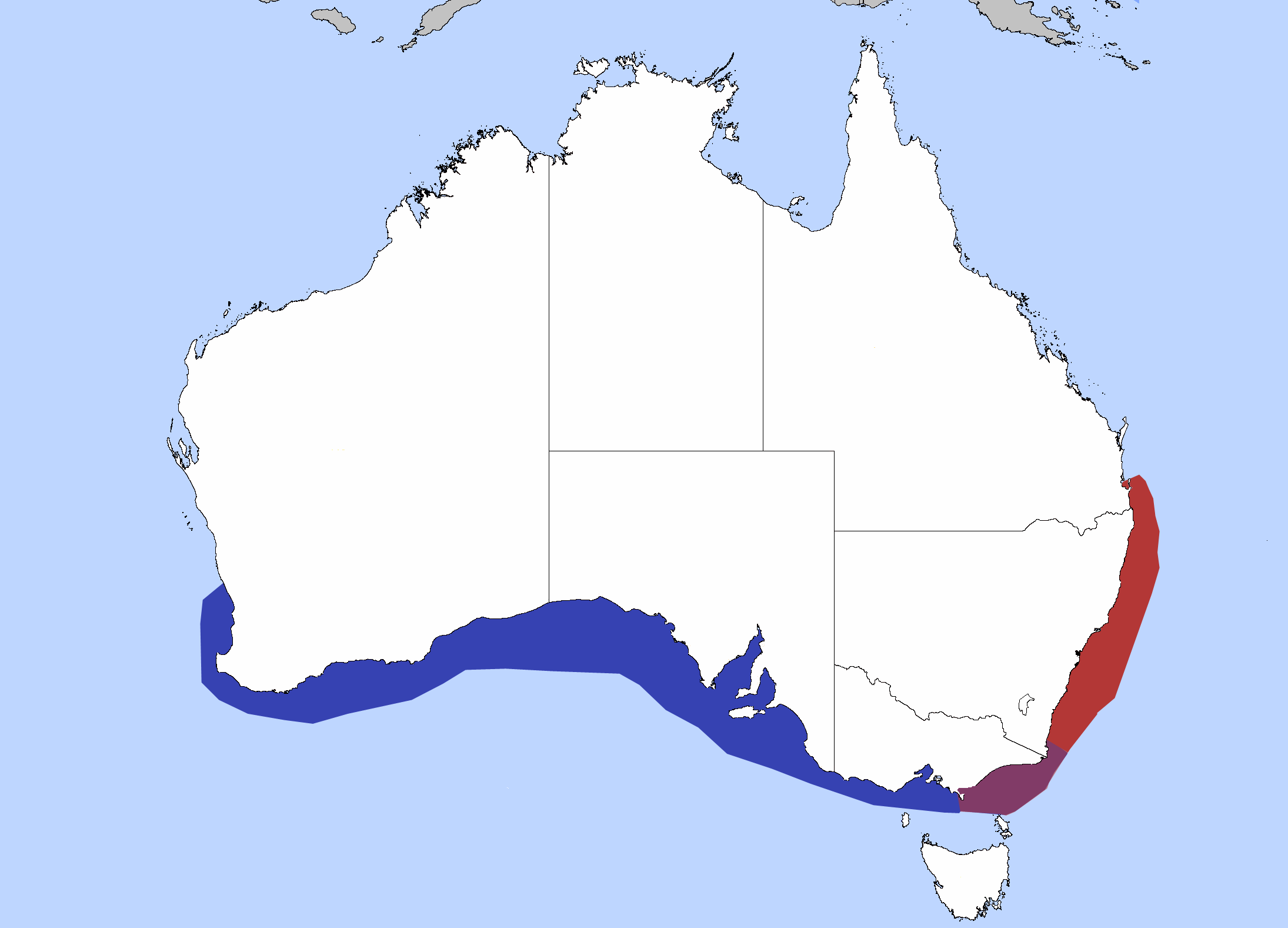 The Range of the Blue Groper Blue = Western Blue Groper (Achoerodus gouldii) Red = Eastern Blue Groper (Achoerodus viridis)